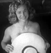 Virginia "Ding Dong" Bell